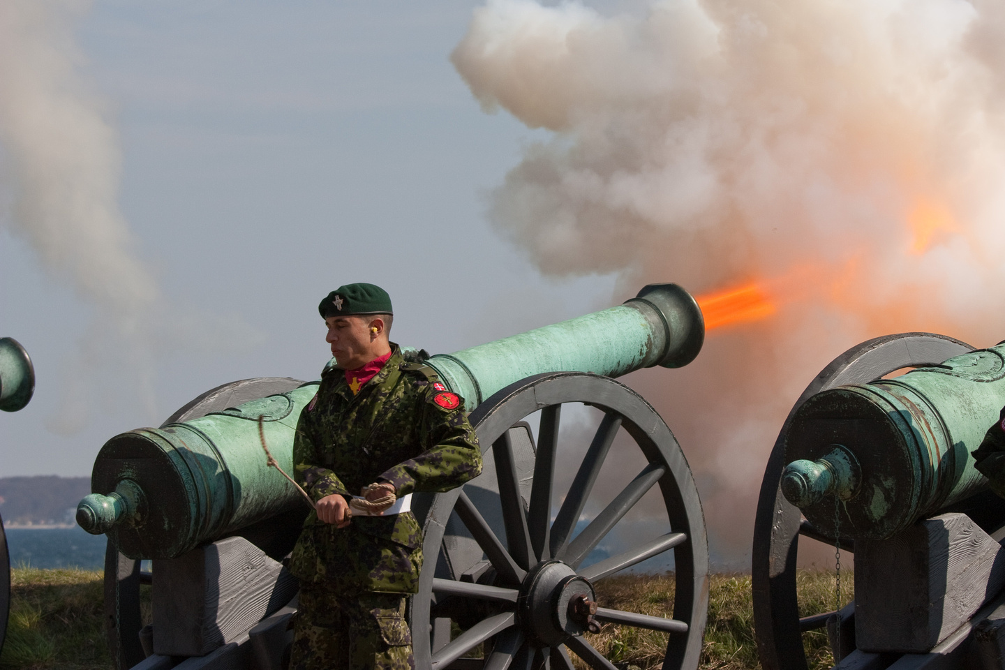 A 12 pound cannon being fired. The cannons date back to the 1760s and belong to one of the oldest active batteries in the world at Kronborg Castle, Denmark. They are only used for special occasions, here a 21-shot salute celebrating Her Majesty Margrethe II's 69th birthday.